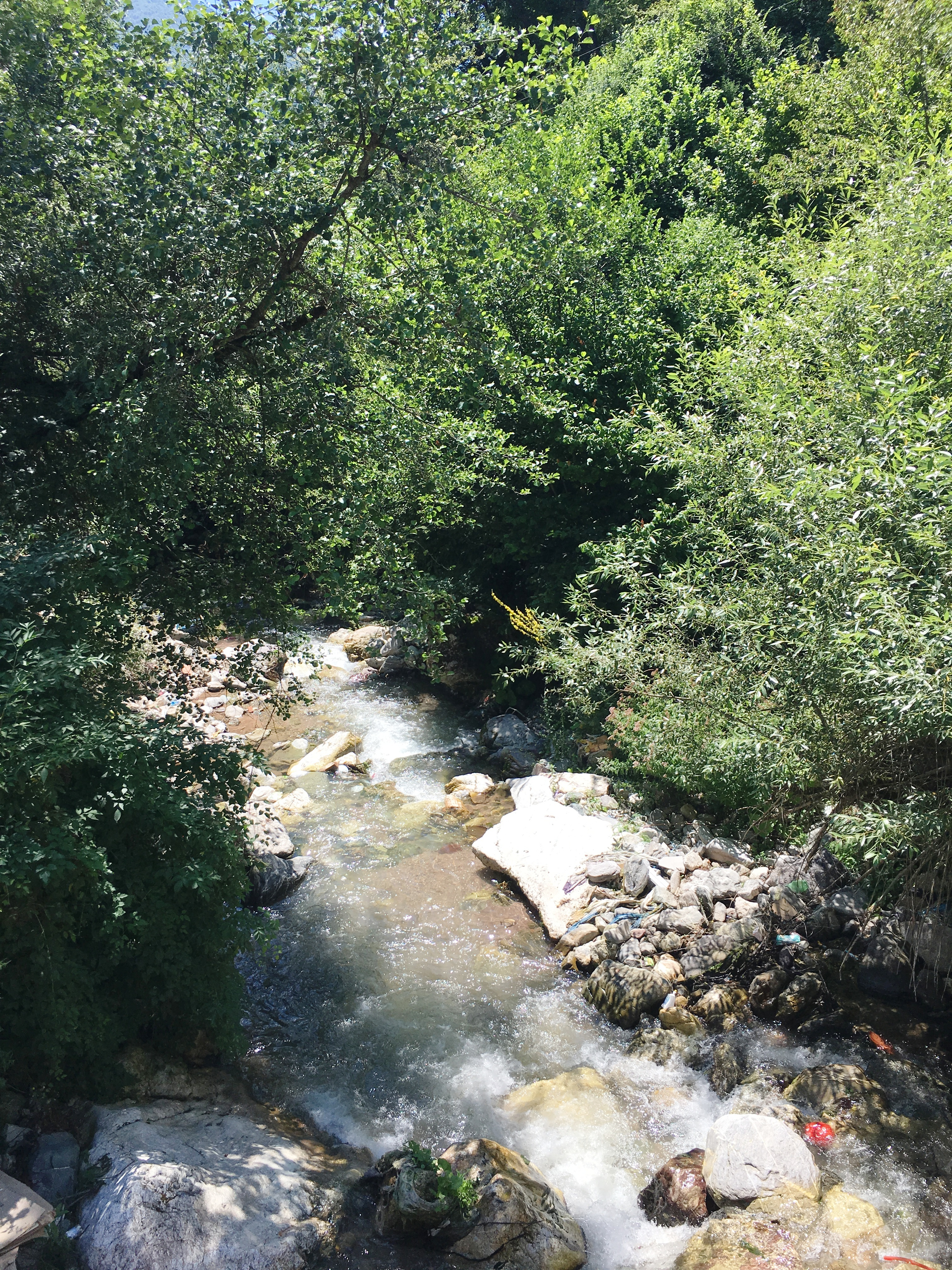 The flow of Žirovnica River through the eeponymous village